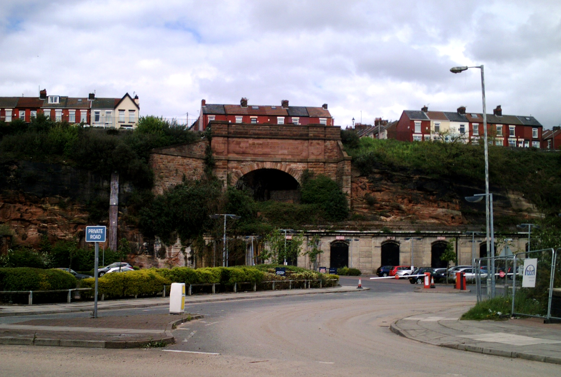 Disused tunnel linking Brunswick/Herculaneum section to Dingle Station. The line closed in 1956.